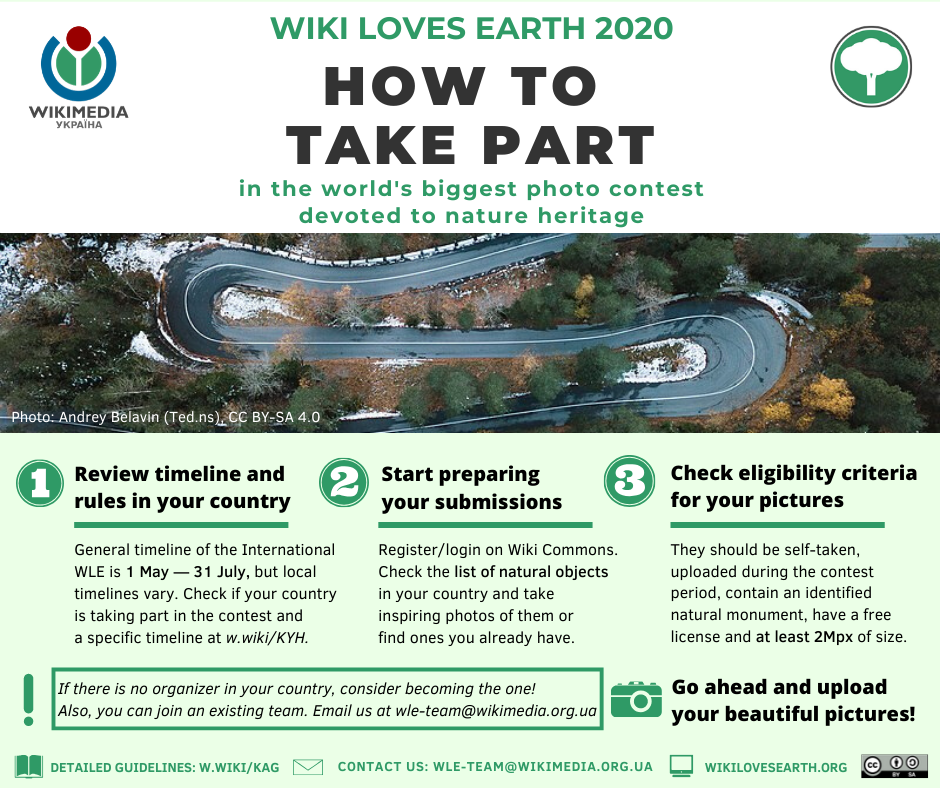 This infographic contains detailed steps how to take part in the Wiki Loves Earth photo contest